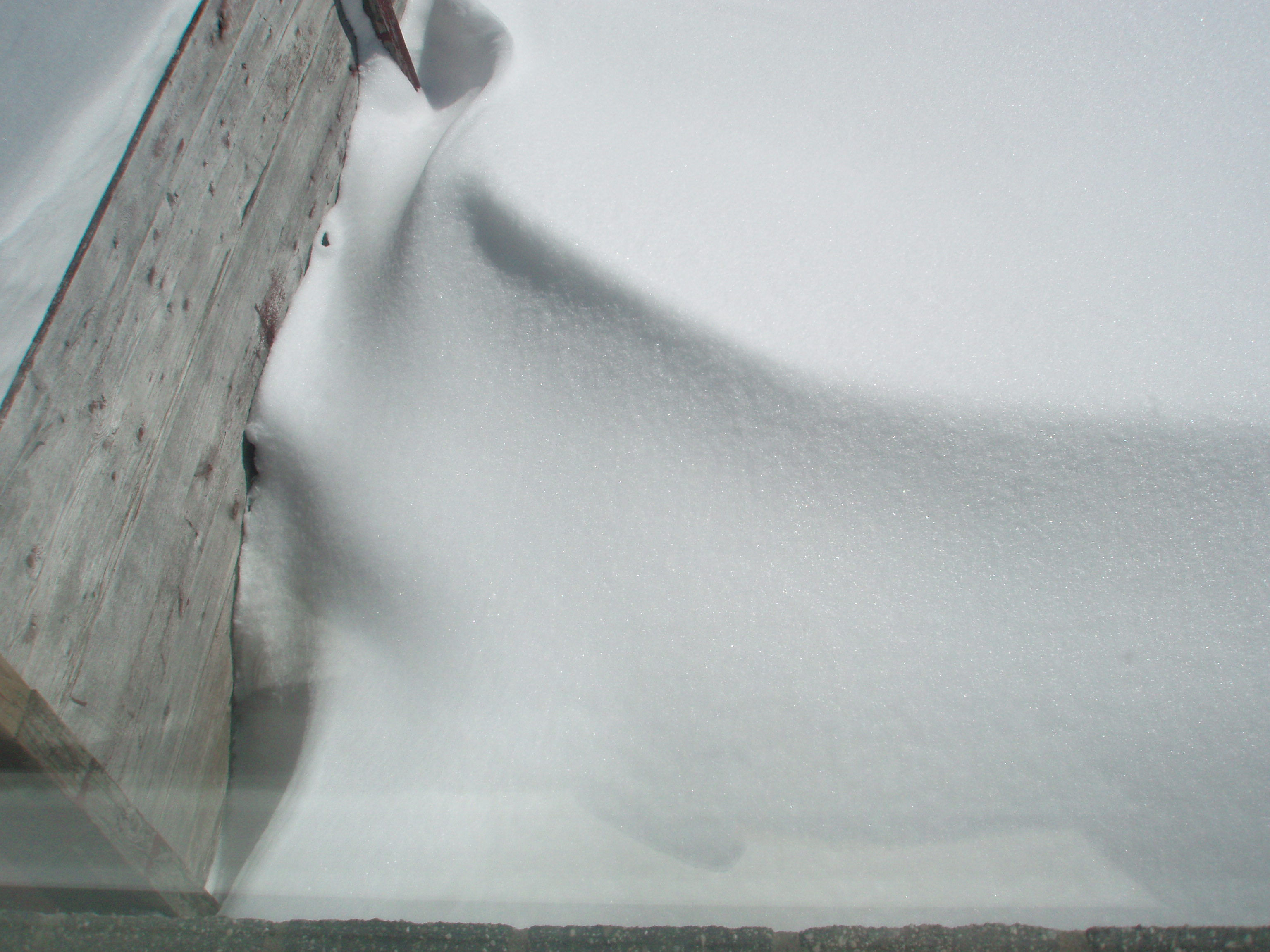 Original description at Wikipedia: I took this image in my backyard. Some snowdrifts were over 3 ft high. The wind blowind down the fences and stuff created strange formations. When snow is blown towards an object in the snow, the windward side the snow dips towards the surface, and the leeward side is more flat. This is after the big snowstorm in early March, that dumped 10 inches of snow.""